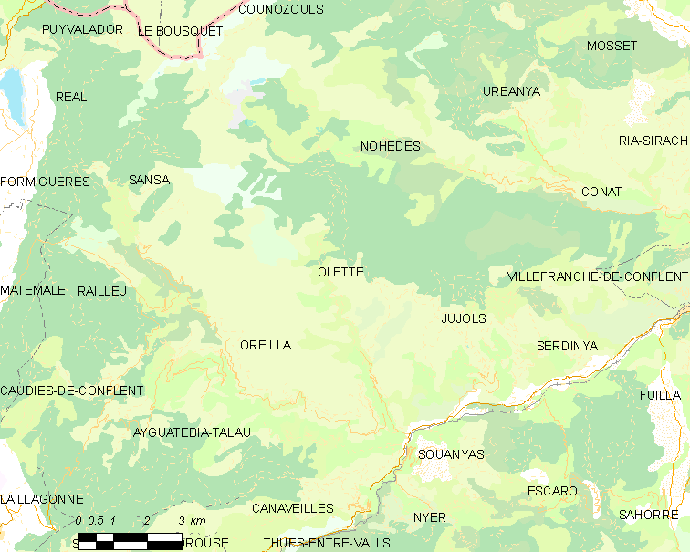 Map of French municipality